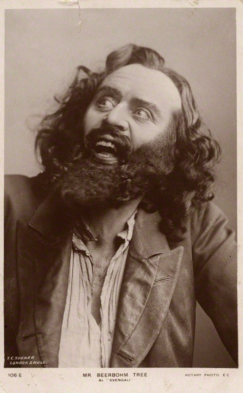 British actor Herbert Beerbohm Tree (1852–1917) as Svengali in the original London production of Trilby (1895)